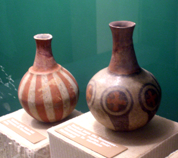 A photo of exotic(non-locally produced) pottery found at the Moundville Archaeological Site.